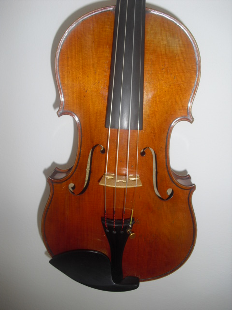 Charles Jean Baptiste Collin-Mezin, Violin 1890